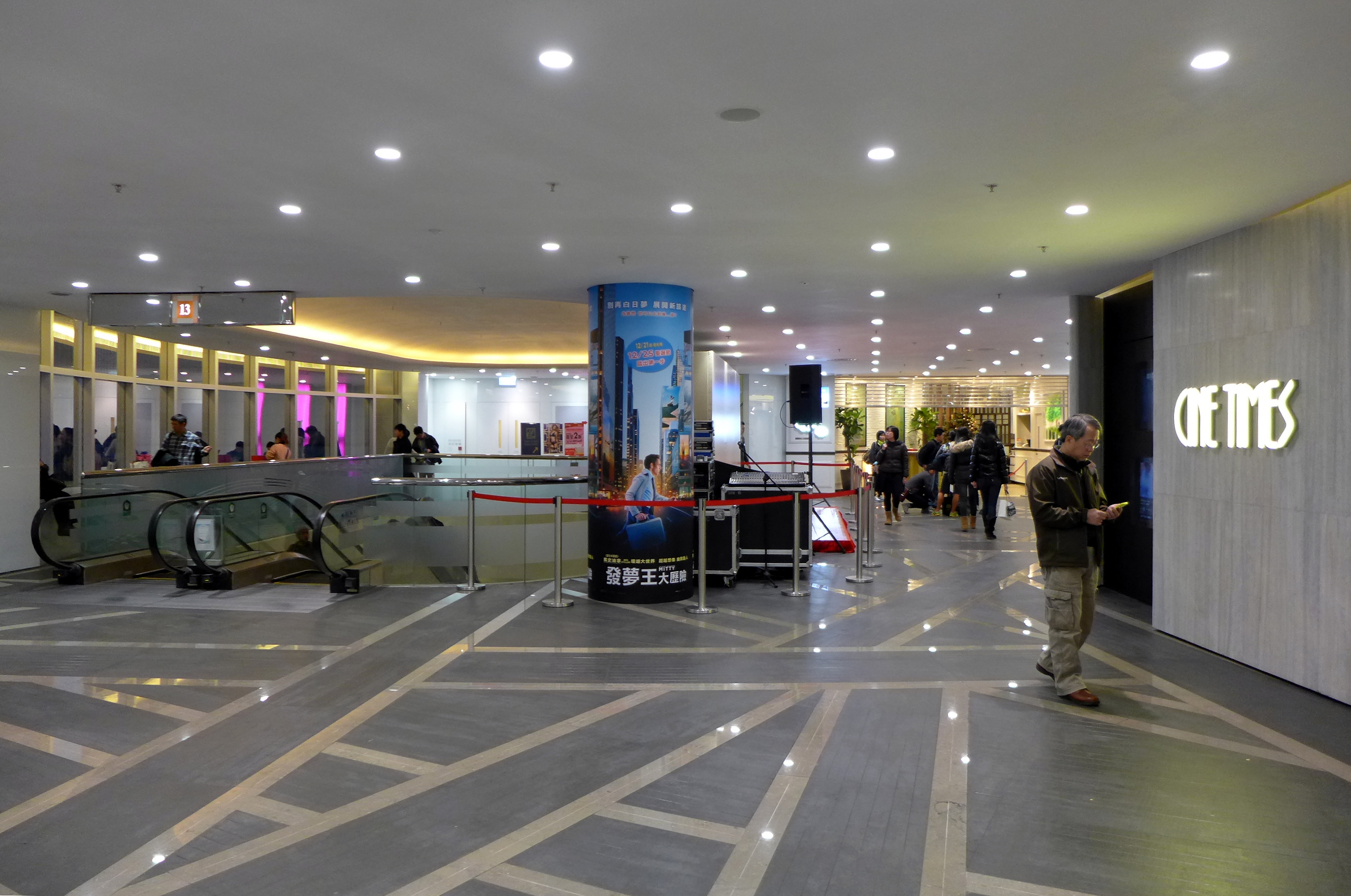 HK Times Square Food Forum 13F